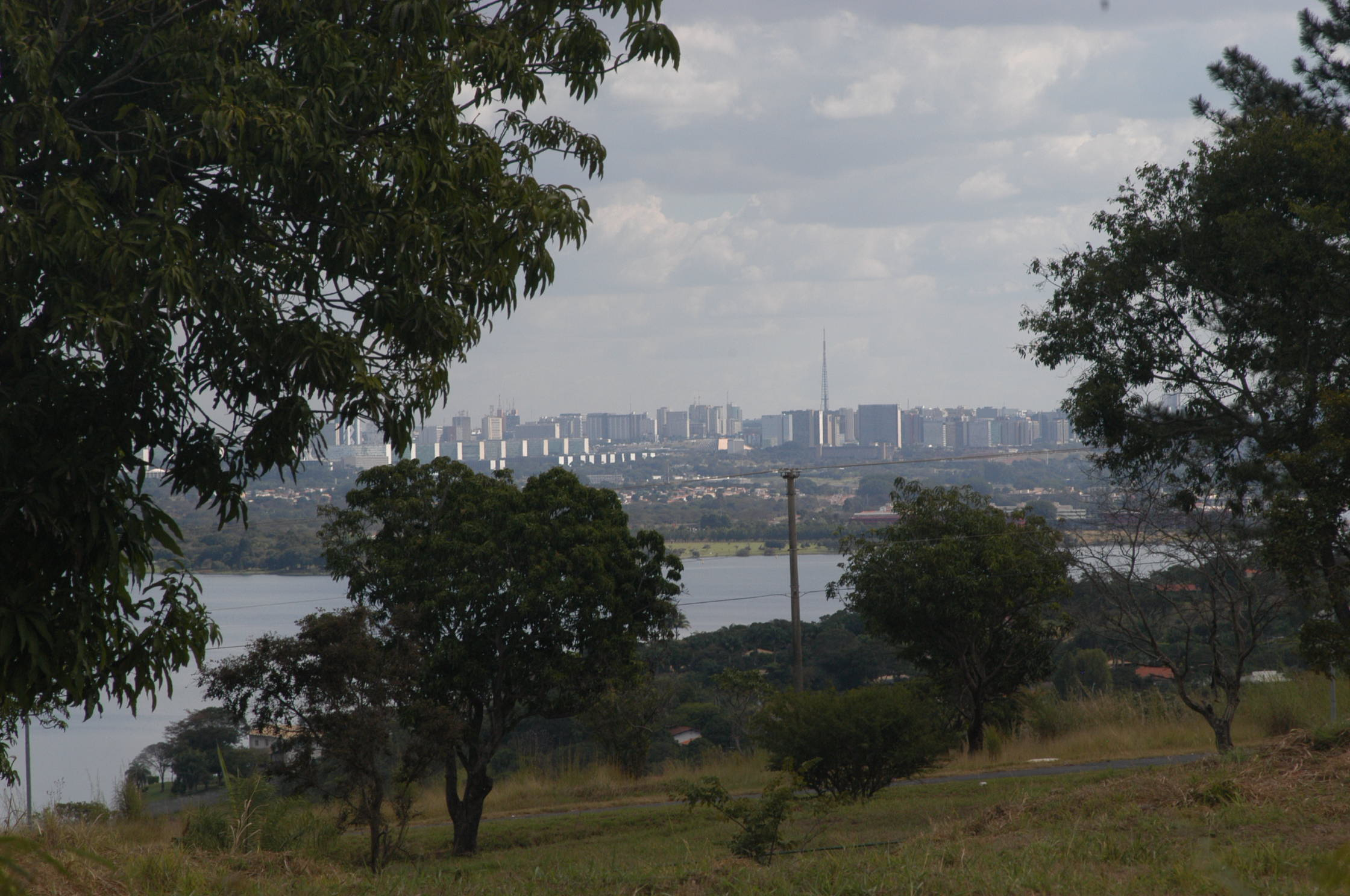 Brasília view of Paranoá.